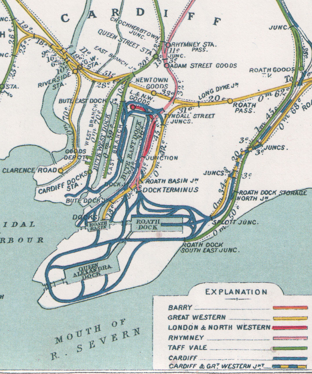 Cardiff, Cogan, Penarth, Heath & Taffs Well Railway Junction Diagram